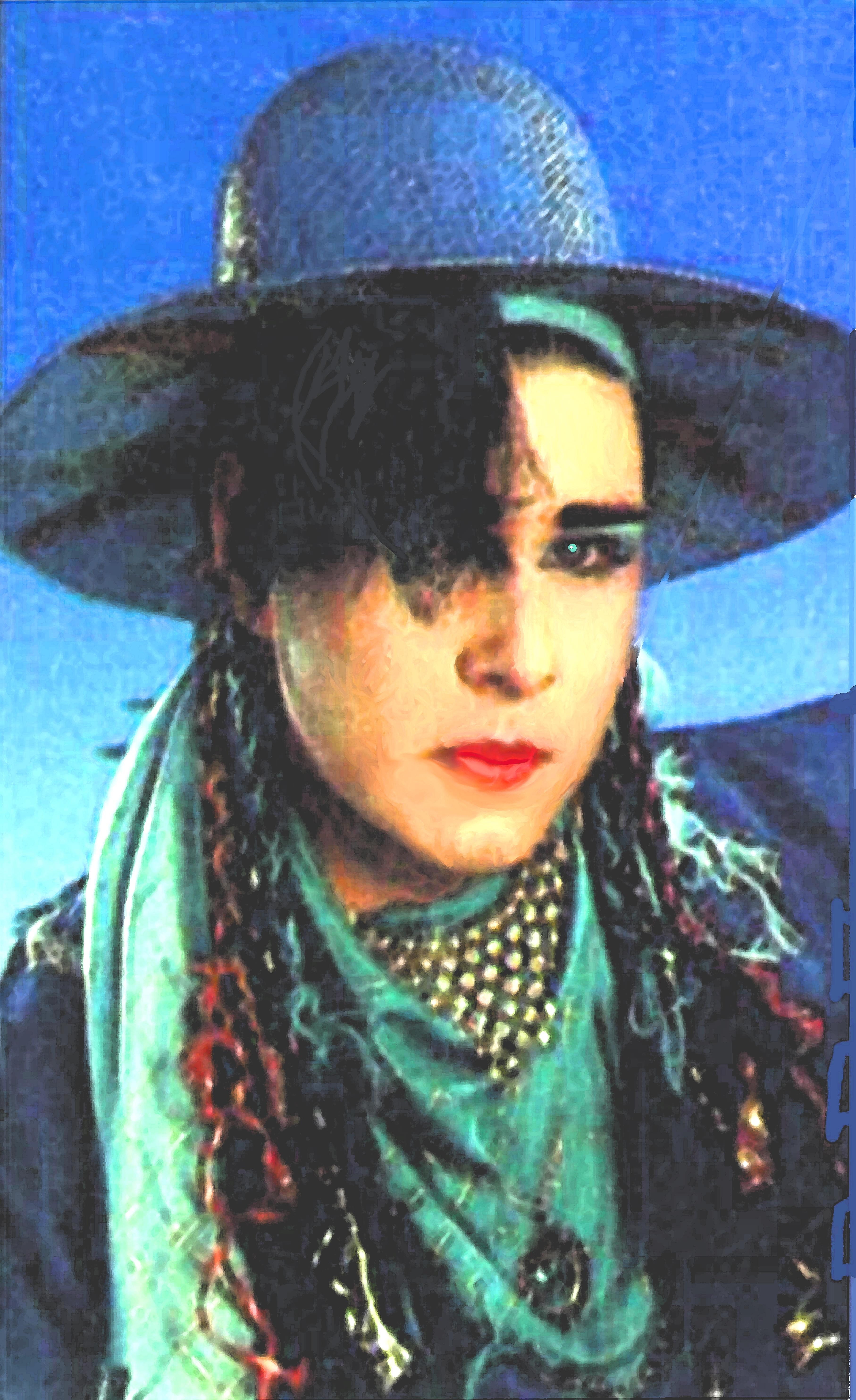 Photo taken of a Boy George impersonator, Patrick Knight in outfit and make-up.